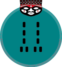 Ogunda Meji (Odu Ifa signal)